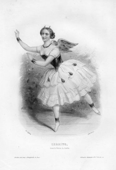 Fanny Cerrito (1849).